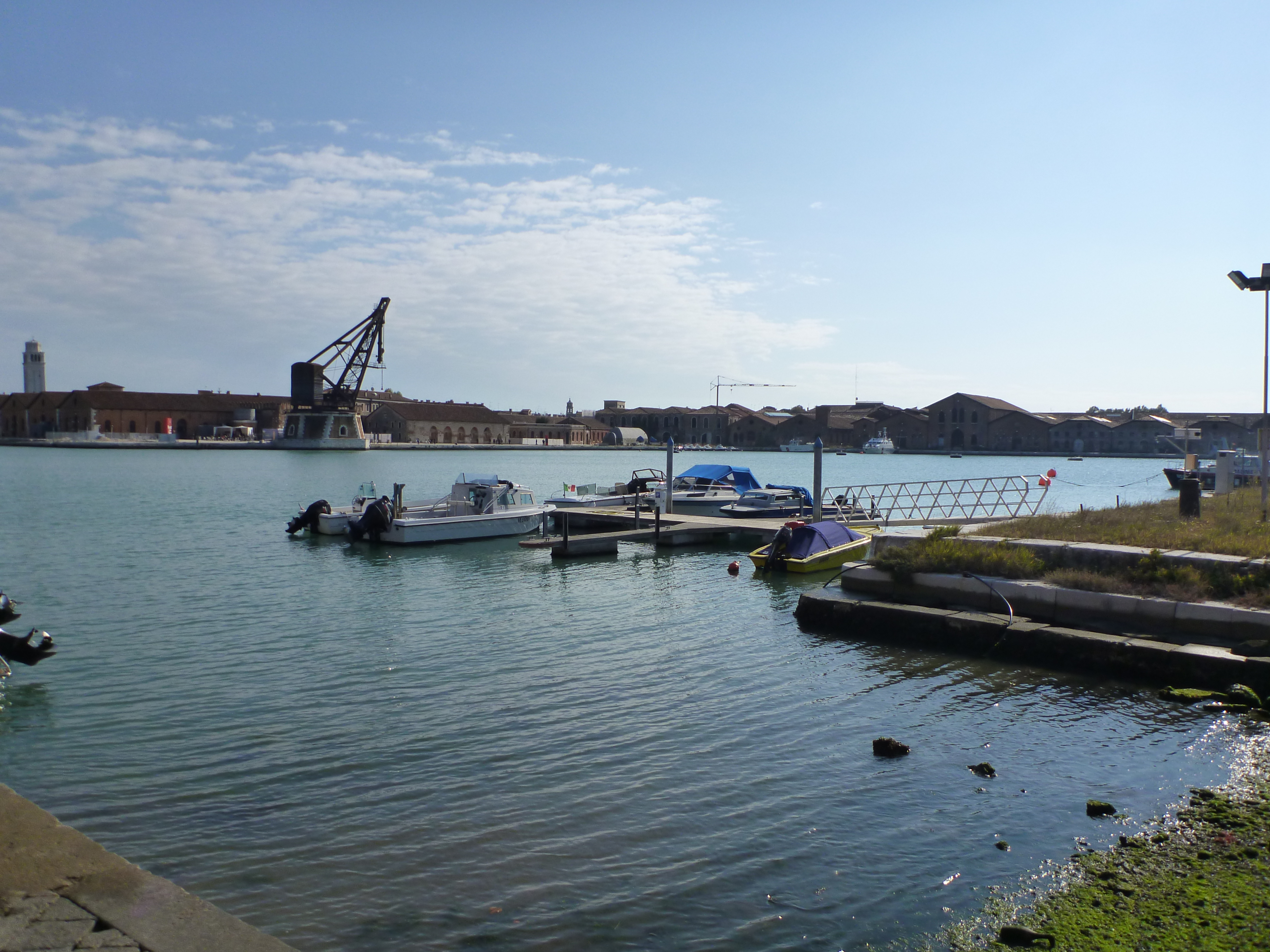 Darsena Grande, Castello, Venezia